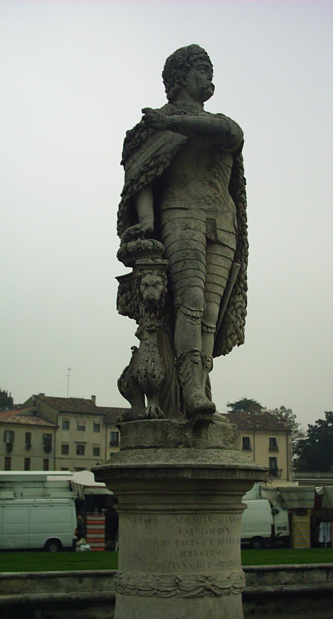 Sculpture of Báthory in Padova, Prato della Valle, father of Gabriel Báthory